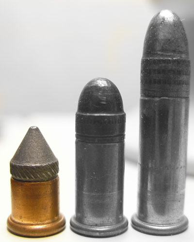 .22 CB Cap (left), .22 Short (center), .22 Long Rifle (right)